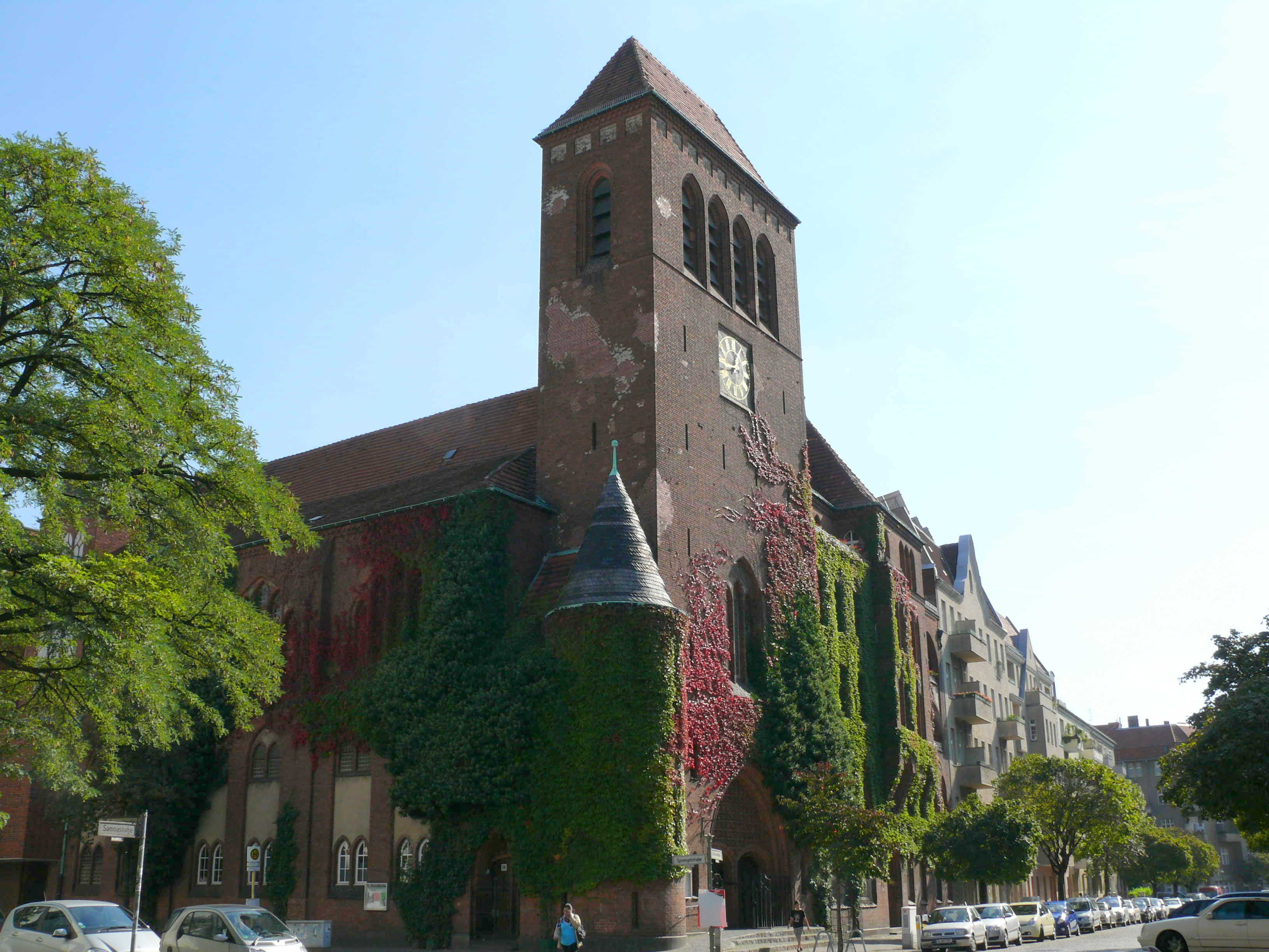 Berlin-Wedding Samoastraße Osterkirche